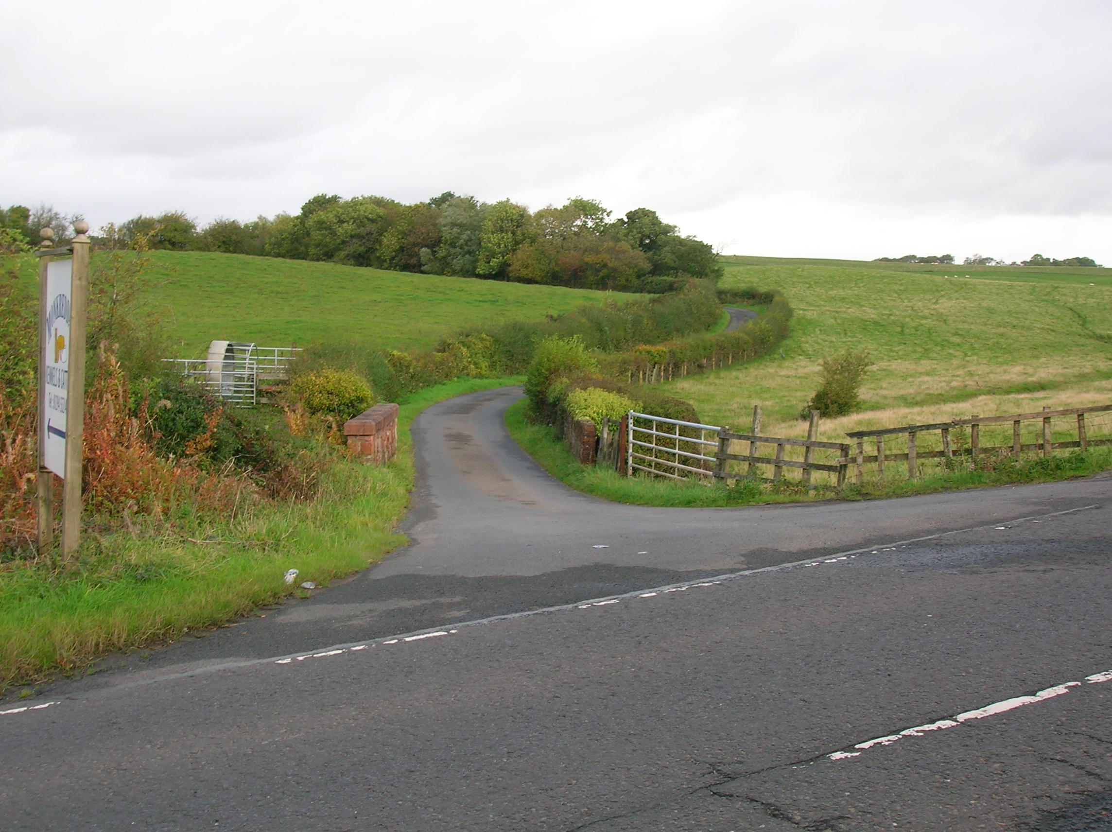 The old Kilwinning to Beith Road near the old Goldcraigs Toll House, Ayrshire, Scotland.